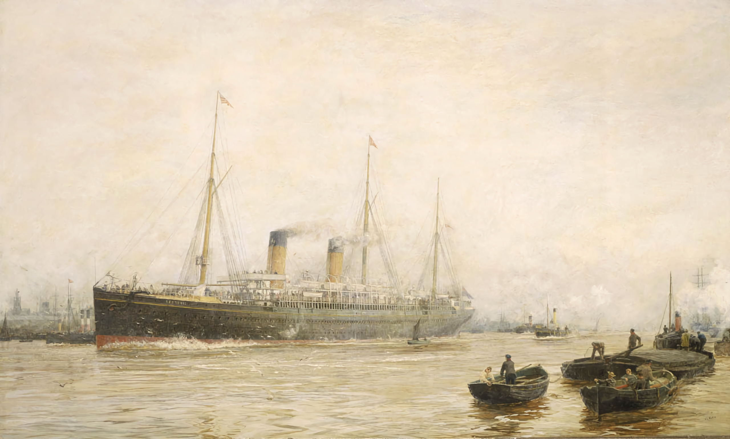 White Star Liner Teutonic leaving Liverpool harbour